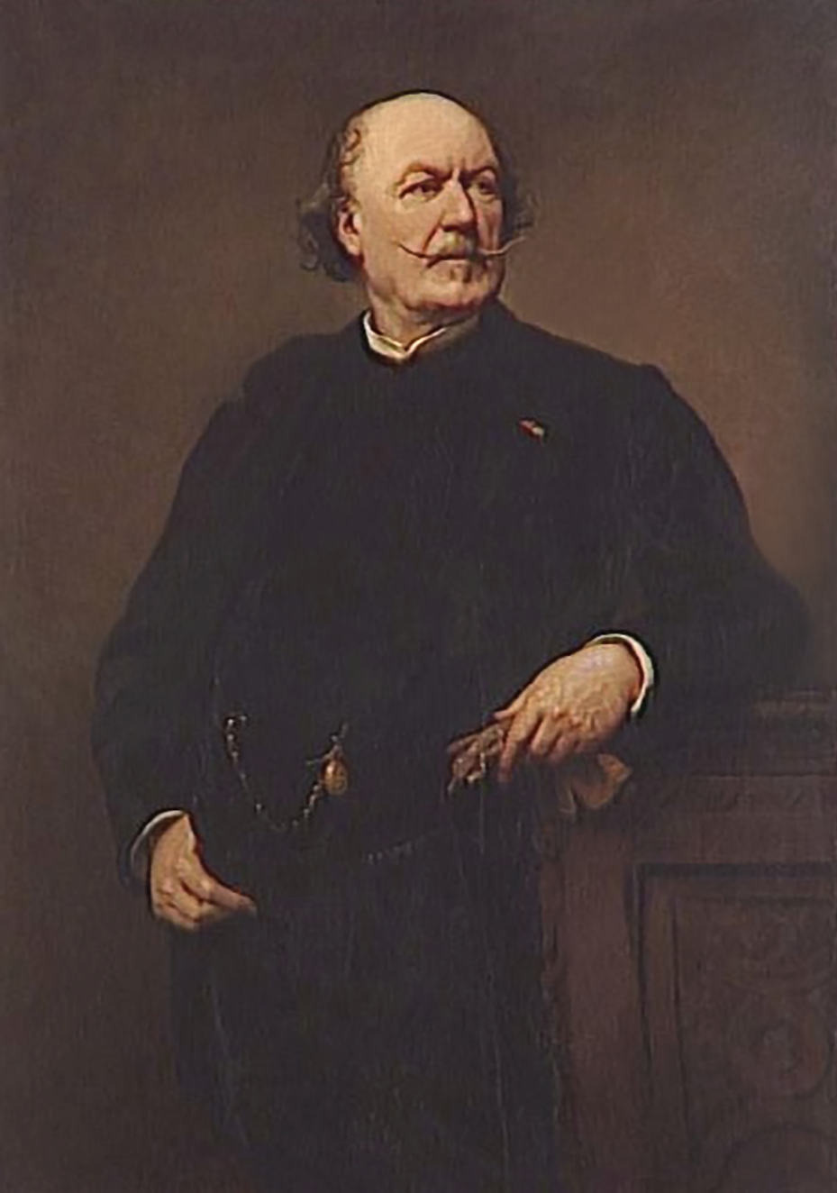 Marechal Certain de Canrobert by Nélie Jacquemart in 1870